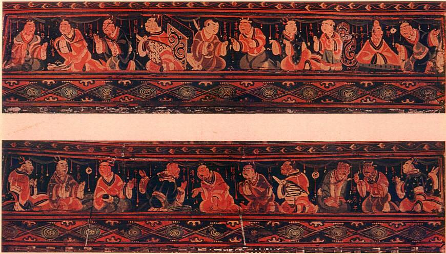 Basket from Lo-lang, a region of the Han Dynasty. Paragons of filial piety, Chinese painted artwork on a lacquered basketwork box. It was excavated from an Eastern Han tomb of what was the Chinese Lelang Commandery in what is now North Korea. Each of the figures are about 5 cm tall. It is now located at the National Museum of Seoul.